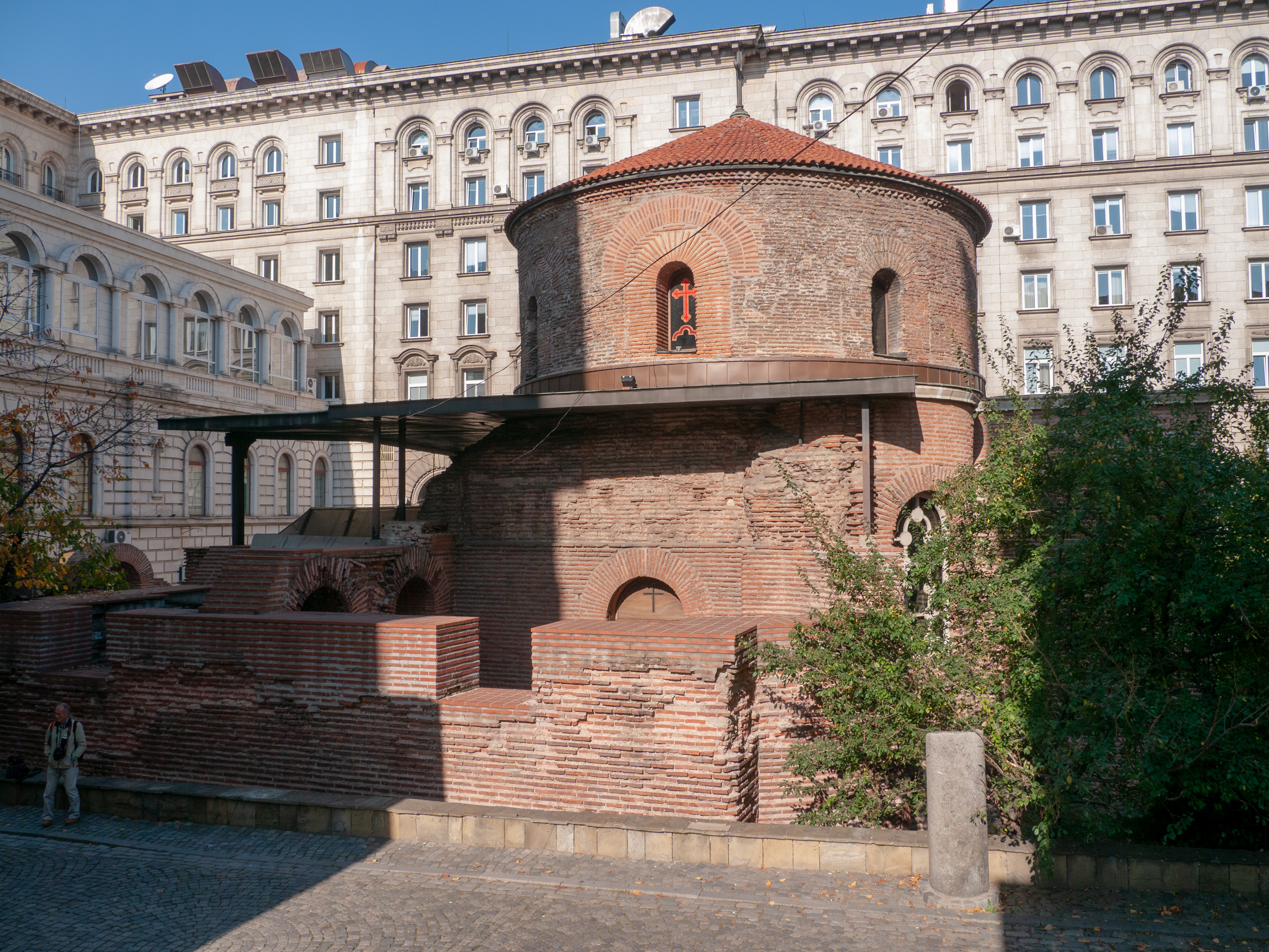 St. George church, Sofia, Bulgaria